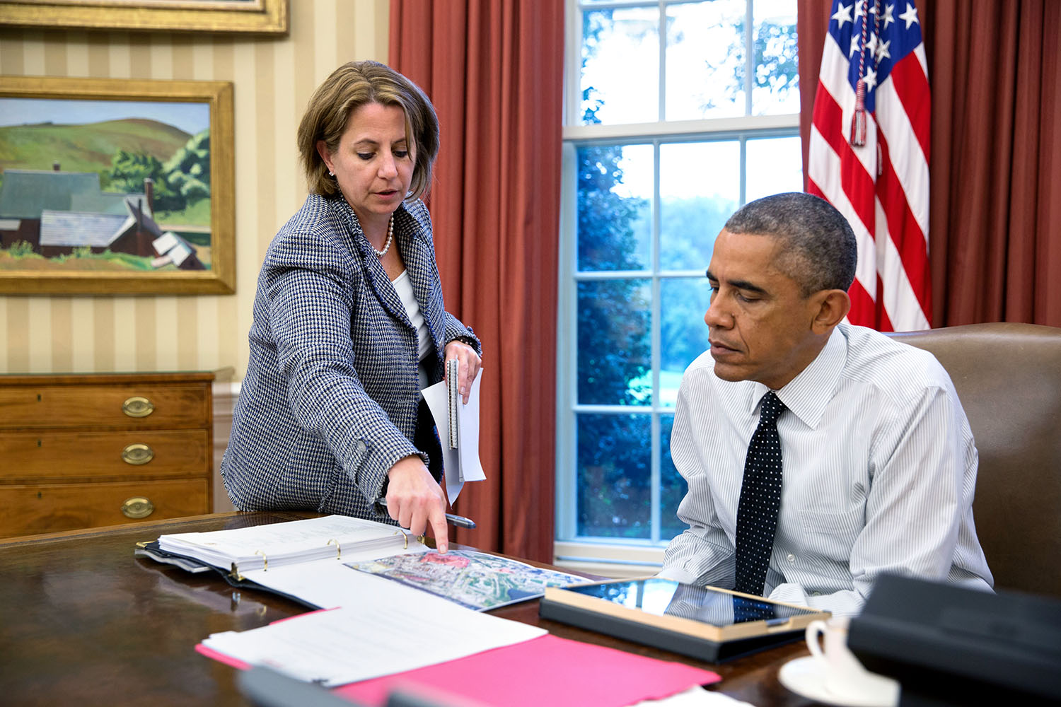 President Barack Obama is briefed by Lisa Monaco, Assistant to the President for Homeland Security and Counterterrorism, on the shooting in Canada prior to a phone call to Canadian Prime Minister Stephen Harper, Oct. 22, 2014. (Official White House Photo by Pete Souza)